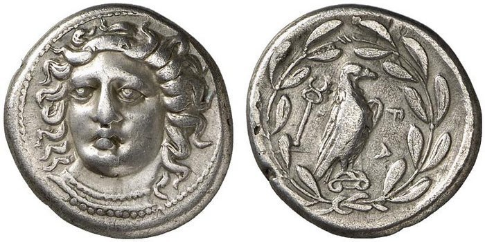 Drachma, 360 BC, Olympia. 105th Olympiad